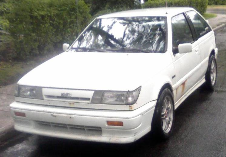 1988-1989 Isuzu I-Mark photographed in Montreal, Quebec, Canada.